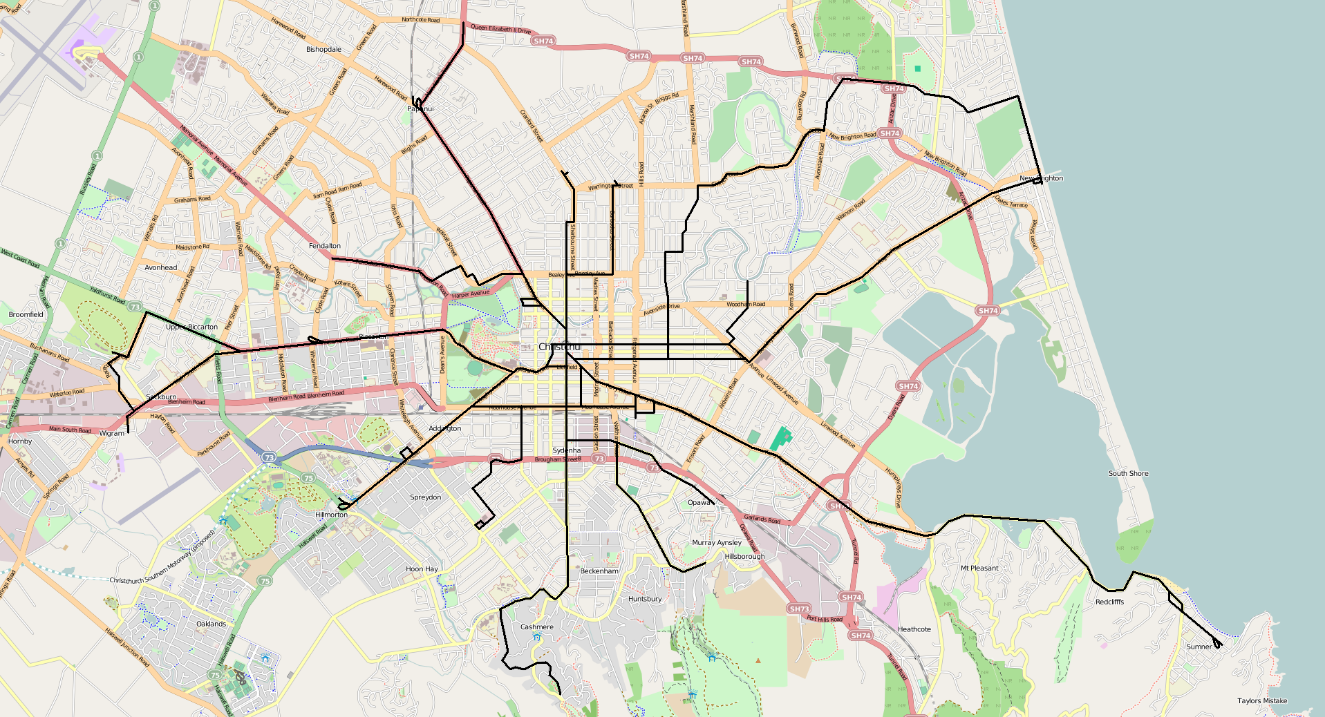 Route map of the electrified tramway system of the Christchurch Tramway Board in Christchurch, New Zealand. N.B. The base road map used here is for reference only and no attempt has been made to make it commensurate with the era in which the tramway operated. Also, as this is a route map, some tracks that existed for operational reasons only, including but not necessarily limited to: sidings, loops, or other configurations to quarries, ballast pits, car sheds, depots, or other facilities, have been omitted. Disclaimer: While I have endeavoured to ensure the accuracy of this map, it may not always be 100% historically accurate, especially the placement, location, orientation, size, or length of balloon loops or wyes at the termini of some lines or where the configuration of roads on which the original tram lines ran has changed since the tram line was removed.